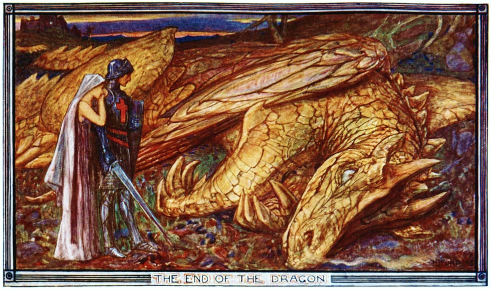 Illustration by Henry Justice Ford (H.J. Ford) for Andrew Lang's The Red Romance Book.